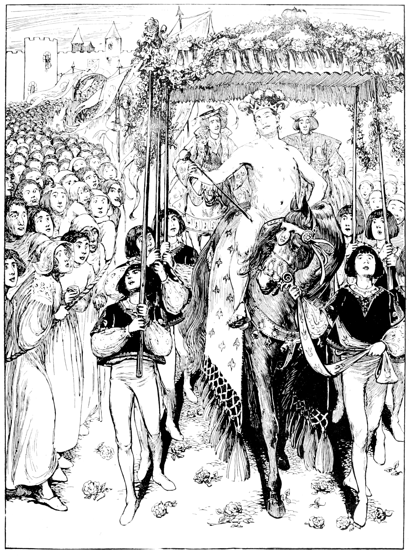 Illustration in a collection of Anderson's Fairy tales.